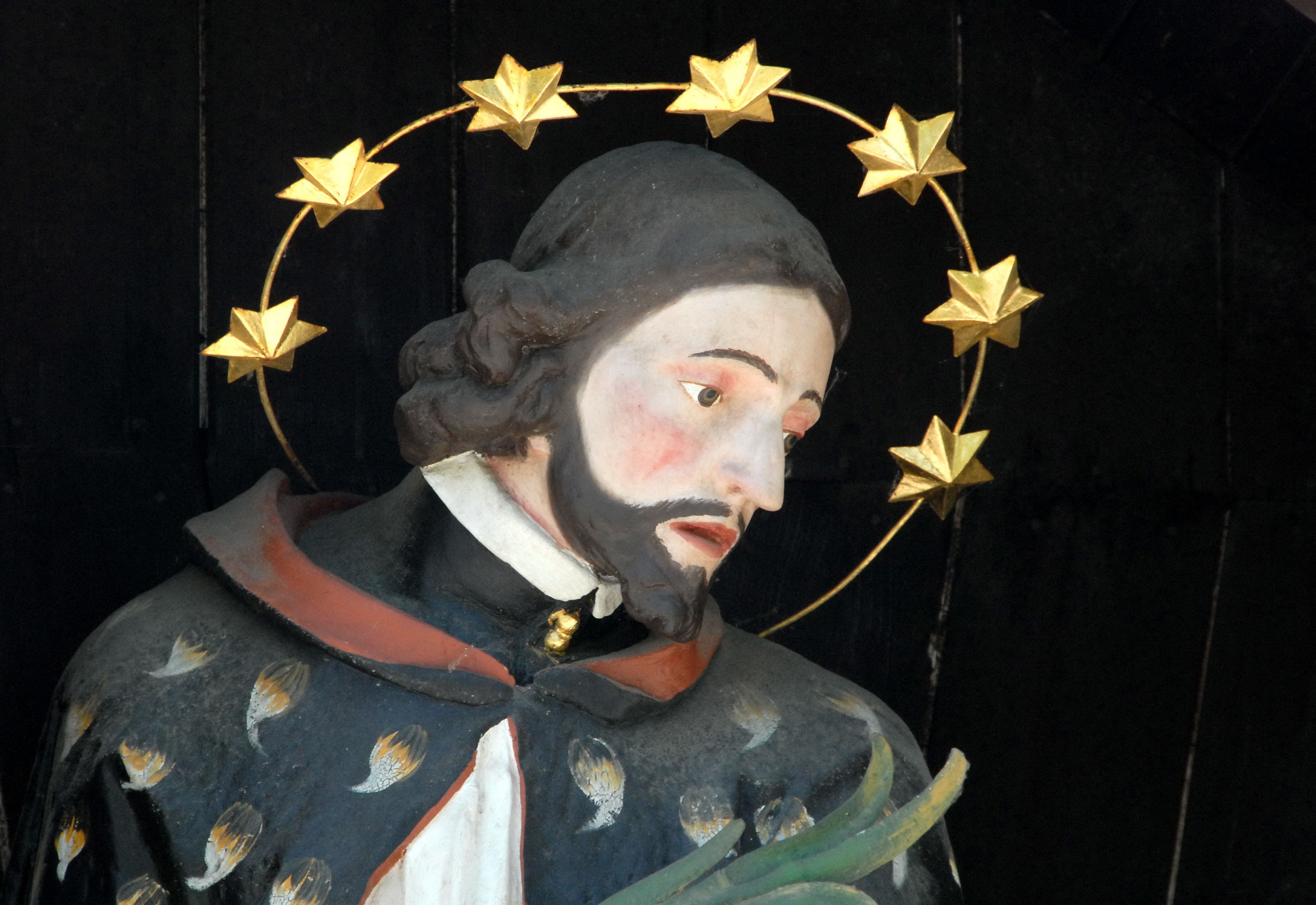 Patron Saint John Nepomucene of the 18th century, on top of the old stone bridge across the Glan river at Unterglandorf in the municipality Sankt Veit an der Glan, district Sankt Veit an der Glan, Carinthia, Austria, EU